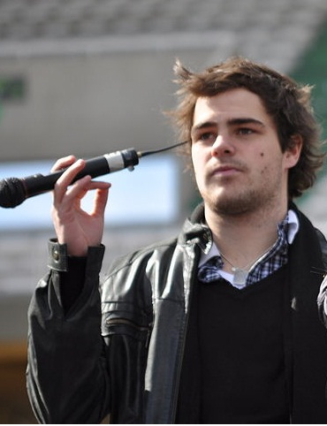 Juan Pedro Lanzani and Mariana Espósito from Teen Angels at a concert in Cordoba, Argentina.